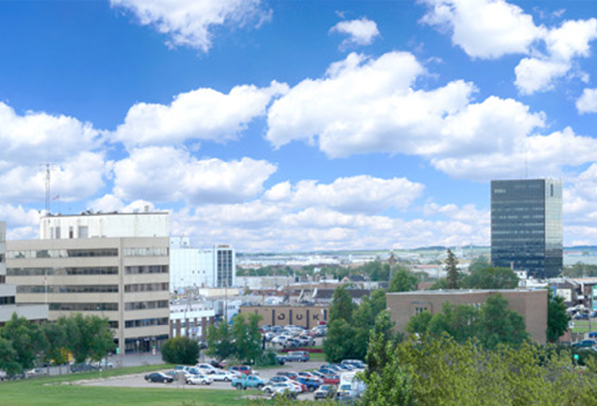 A small shot of the City Skyline